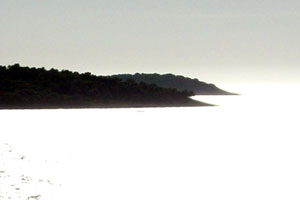 island of Grbavac, behind Maslinovik, seen from Primošten, Croatia